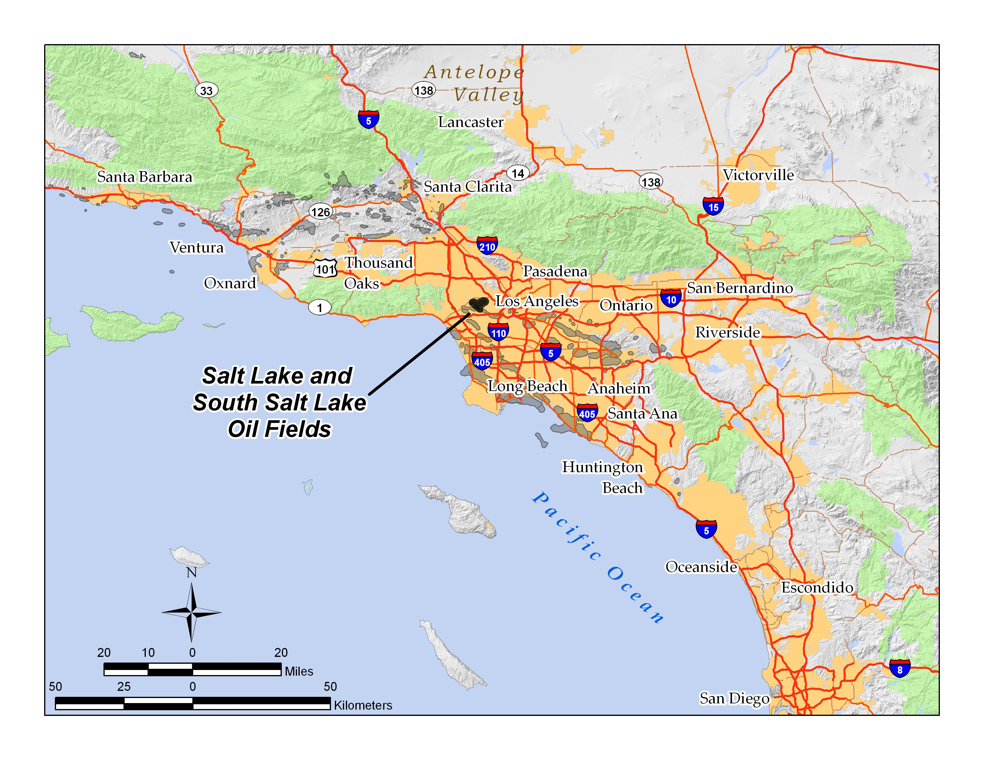 Location of Salt Lake and South Salt Lake fields in Los Angeles Basin; by self using ArcGIS 9.3; created from public domain sources